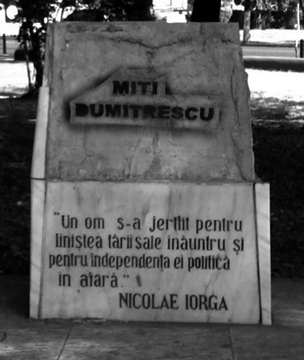 Monumentul amintind de locul în care a fost asasinat Armand Călinescu, București, Parcul Eroilor